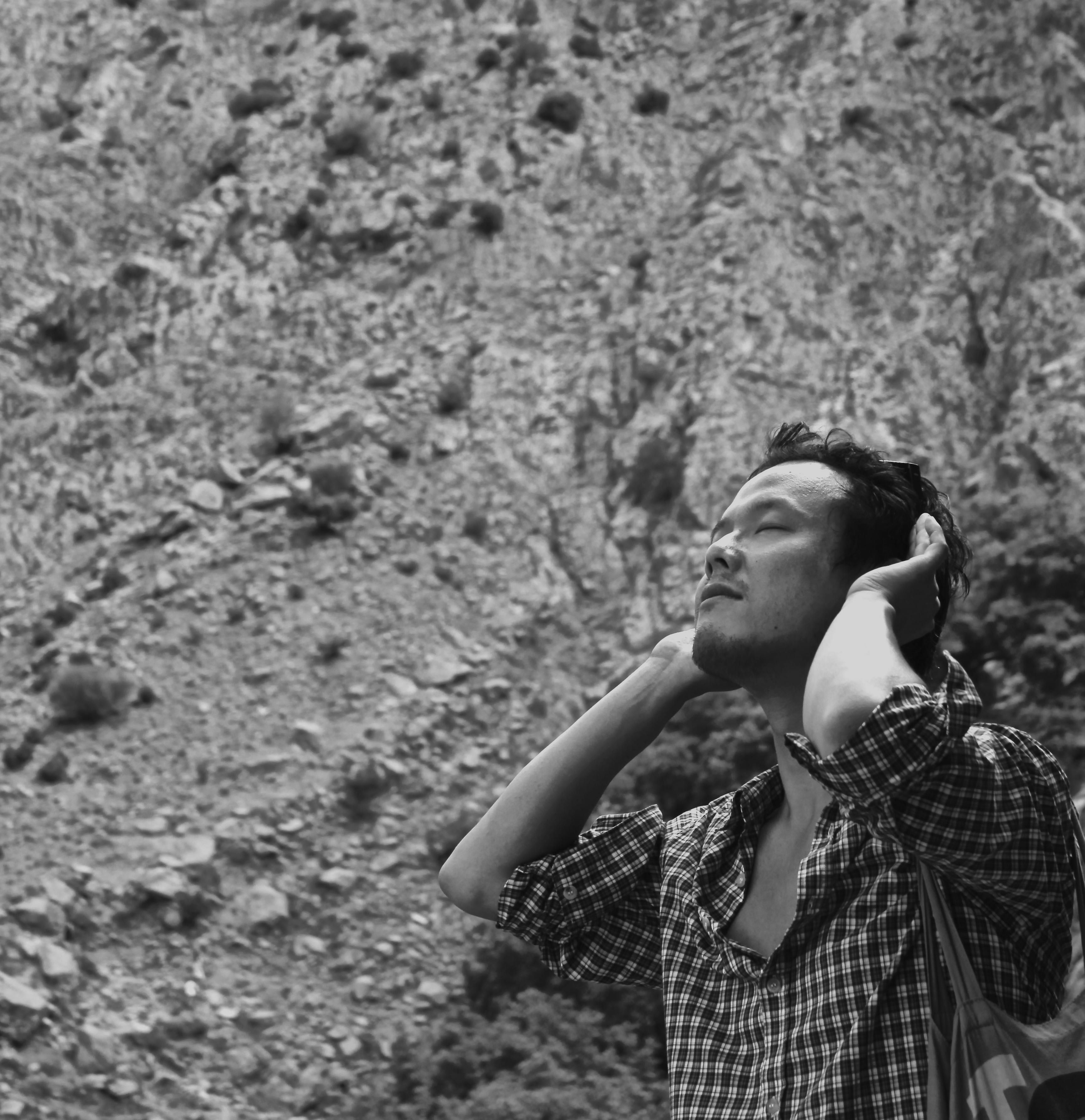 Owned by Yasuhiro Morinaga